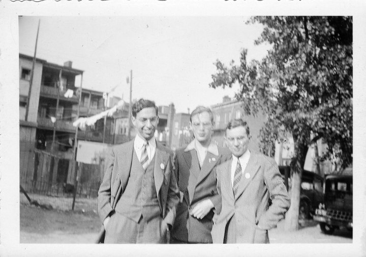 Wollheim family photo of Donald Allen Wollheim, Frederik Pohl and John Michel. Donated by Elizabeth Wollheim, for Public Domain